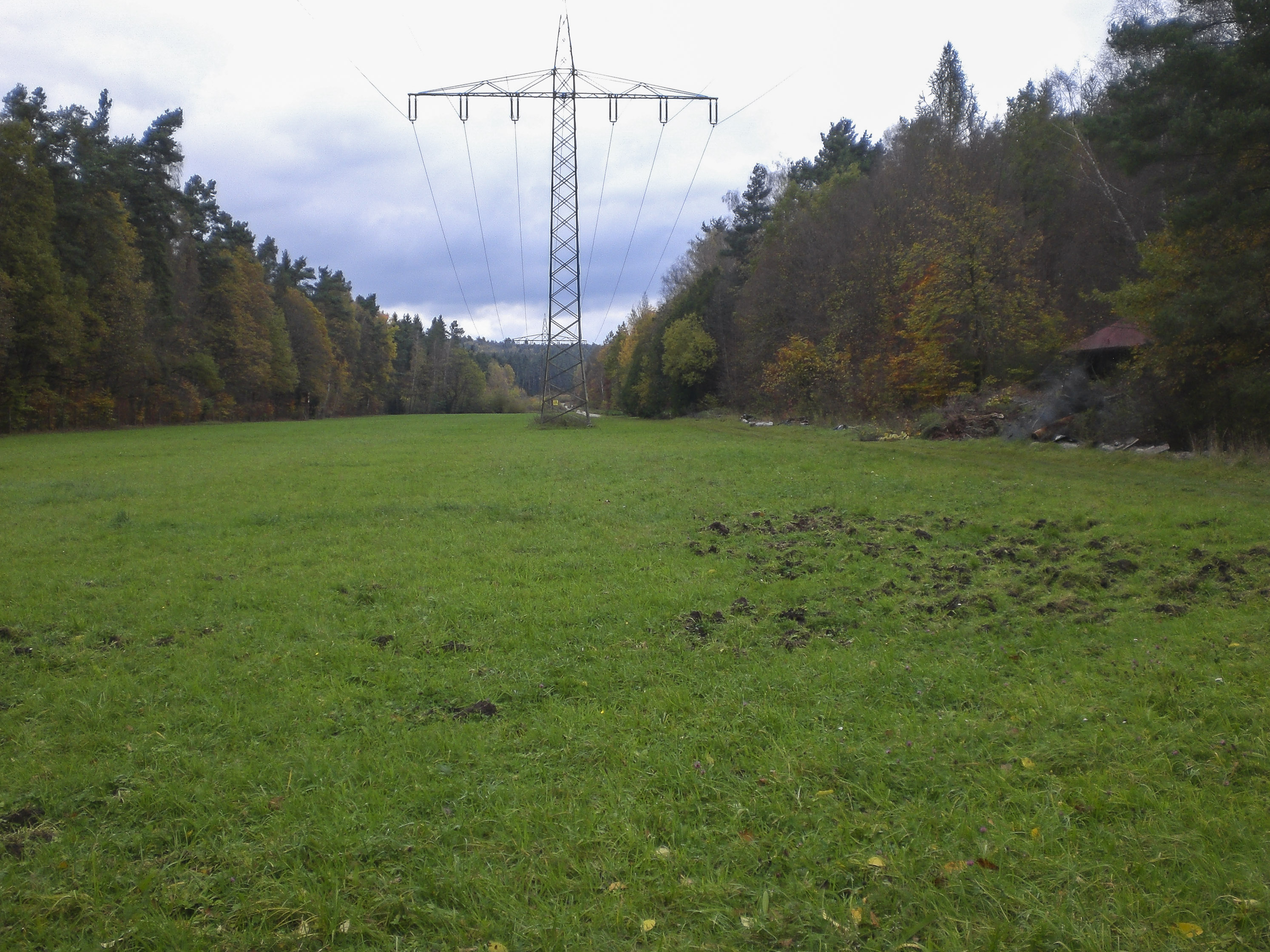 Ehemalige Strafanstalt, Holzweiher, Forsthof